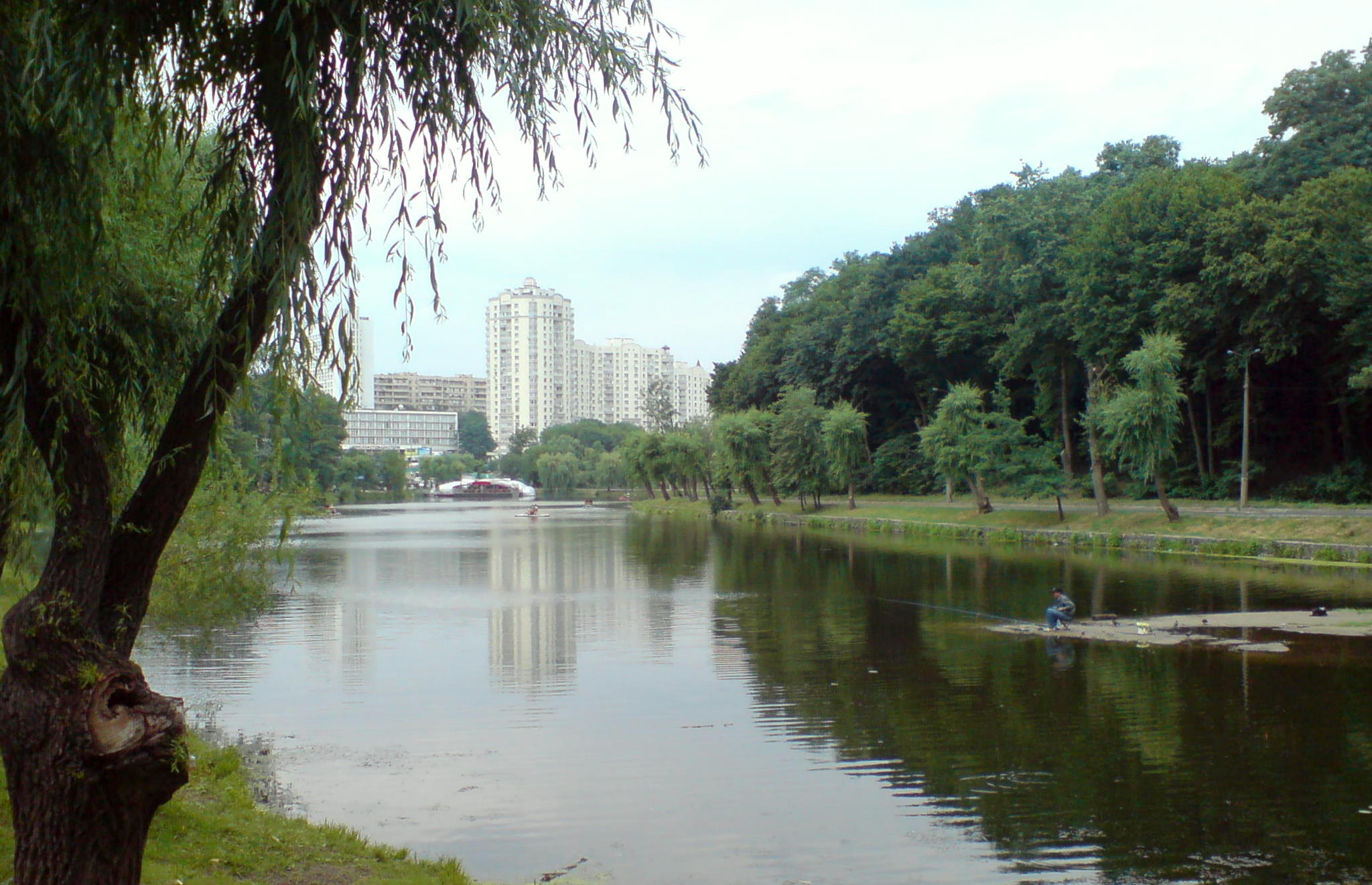 Maksym Rylsky Park in Kiev: the lowest lake